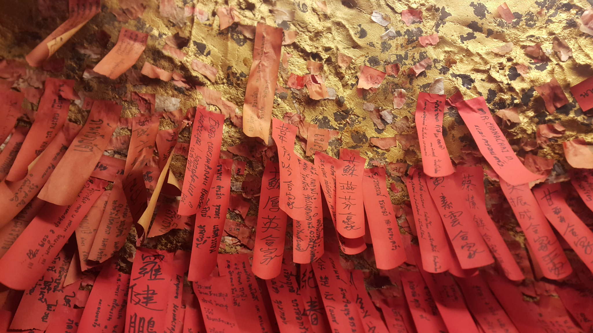 Wishing paper in San Chao Pho Khao Yai